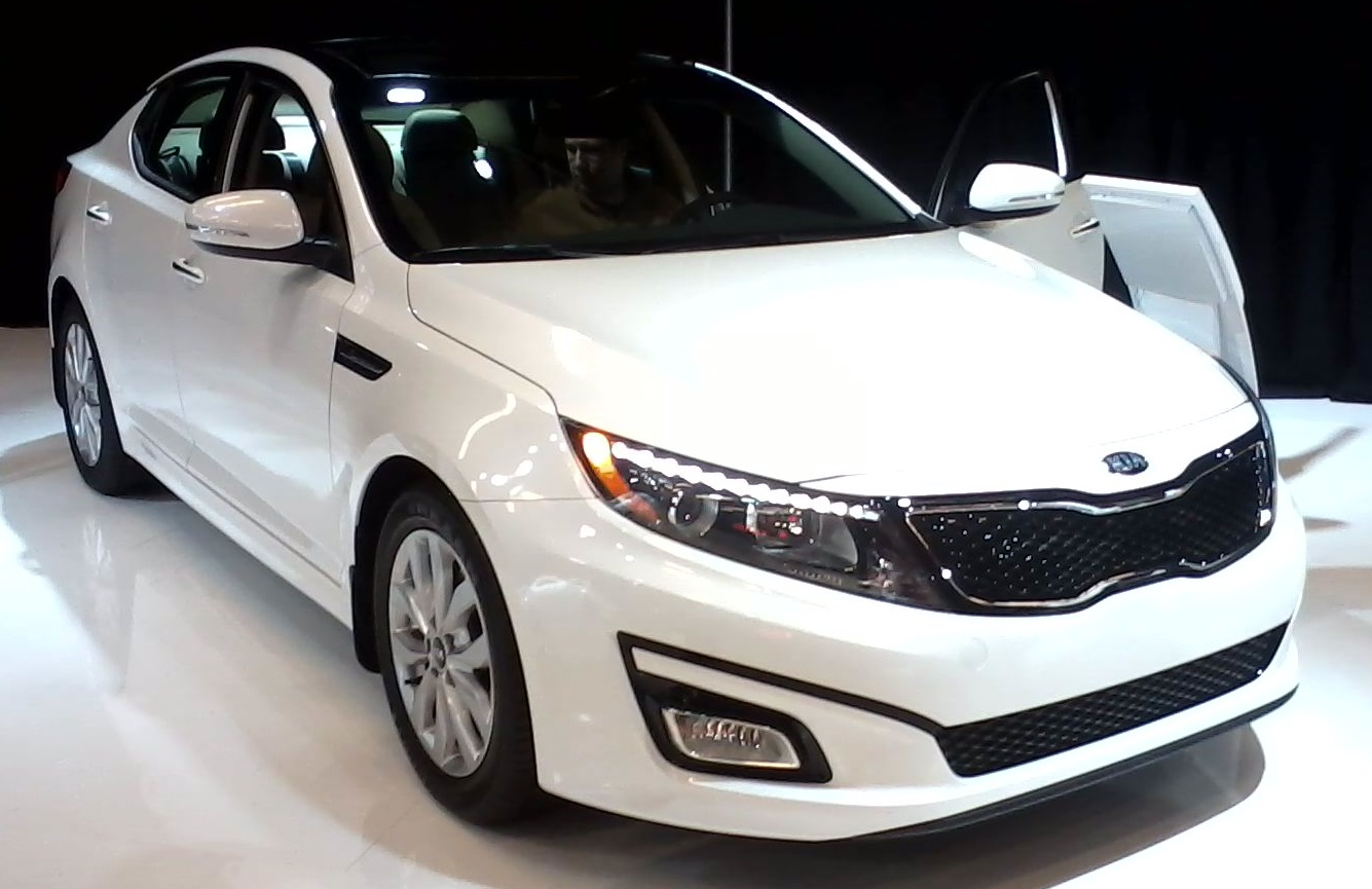 2014 Kia Optima photographed in Montreal, Quebec, Canada at the 2014 Montreal International Auto Show.